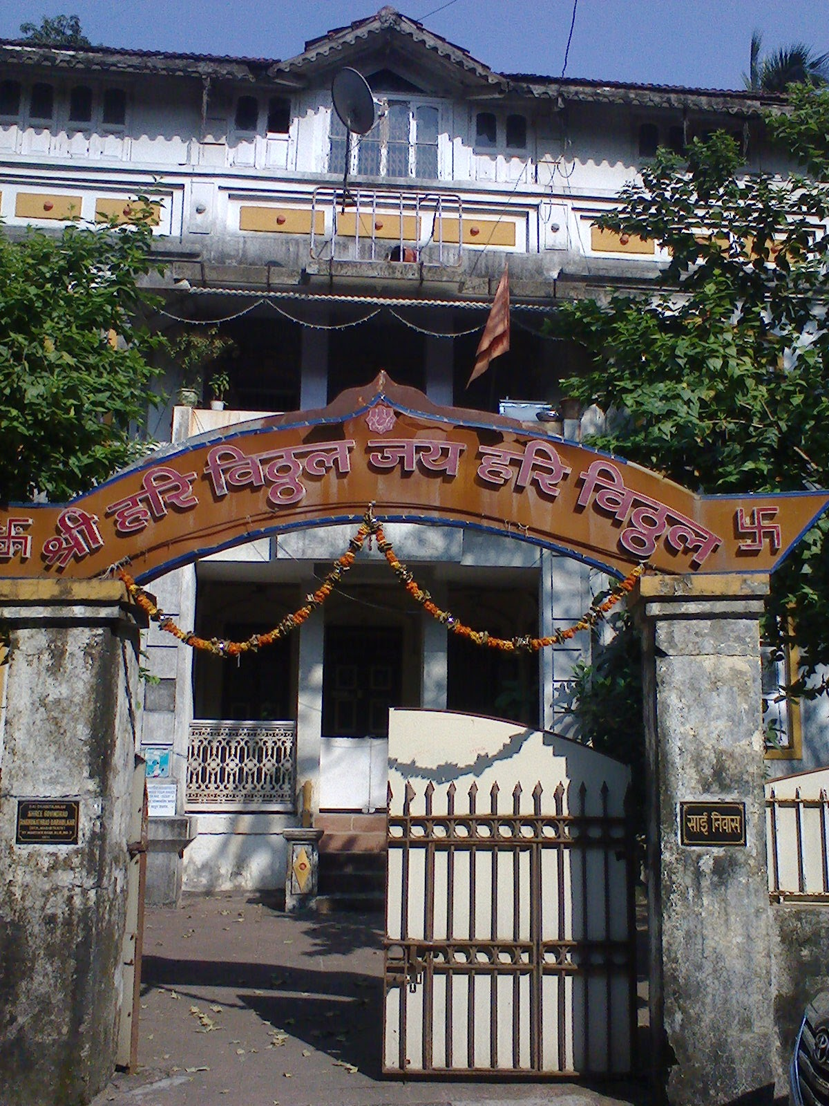 Home of Sai Baba's Devotee Hemadpant